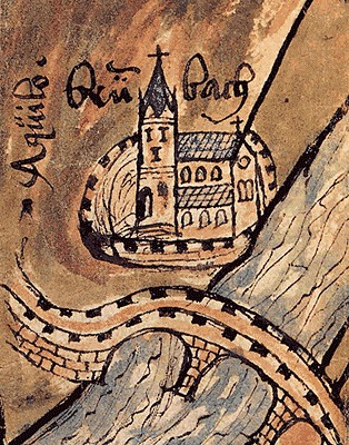 Bronnbach monastery on an old map from 1518, oldest known depiction